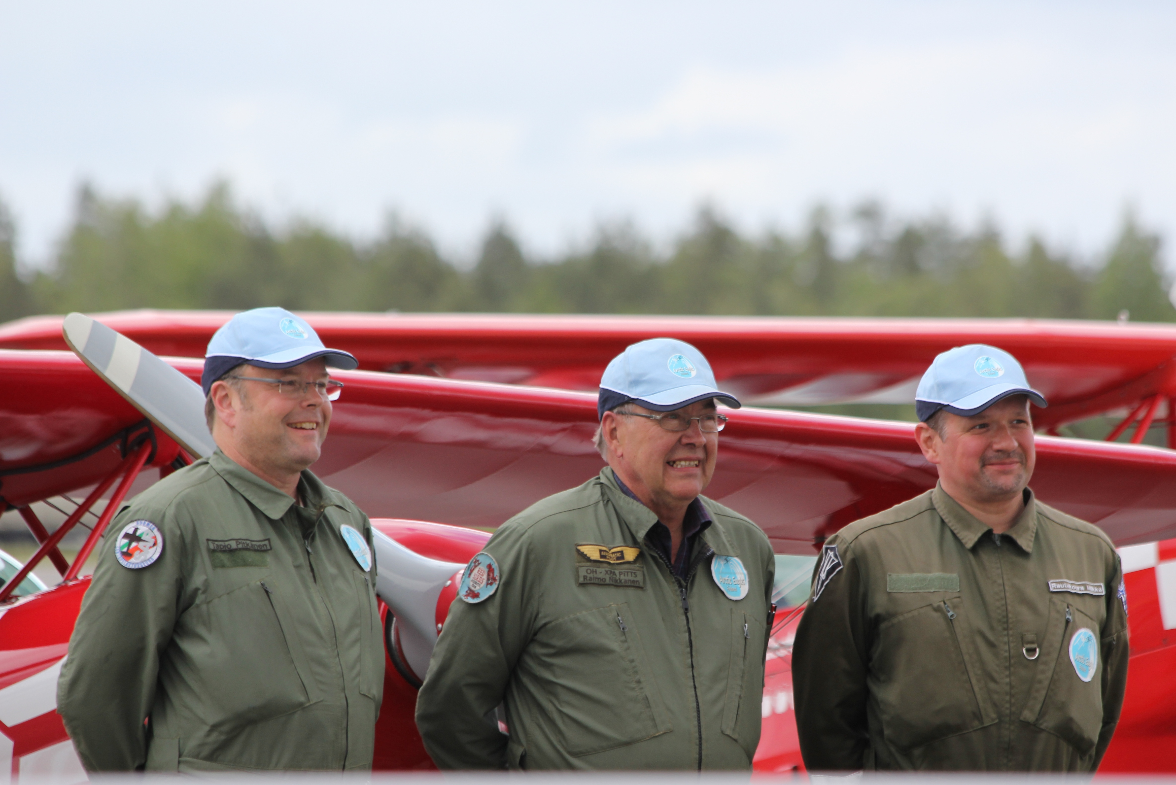 Arctic Eagles aerobatic team pilots Tapio Pitkänen, Raimo Nikkanen and Miikka Rautakoura in Turku Airshow 2015.